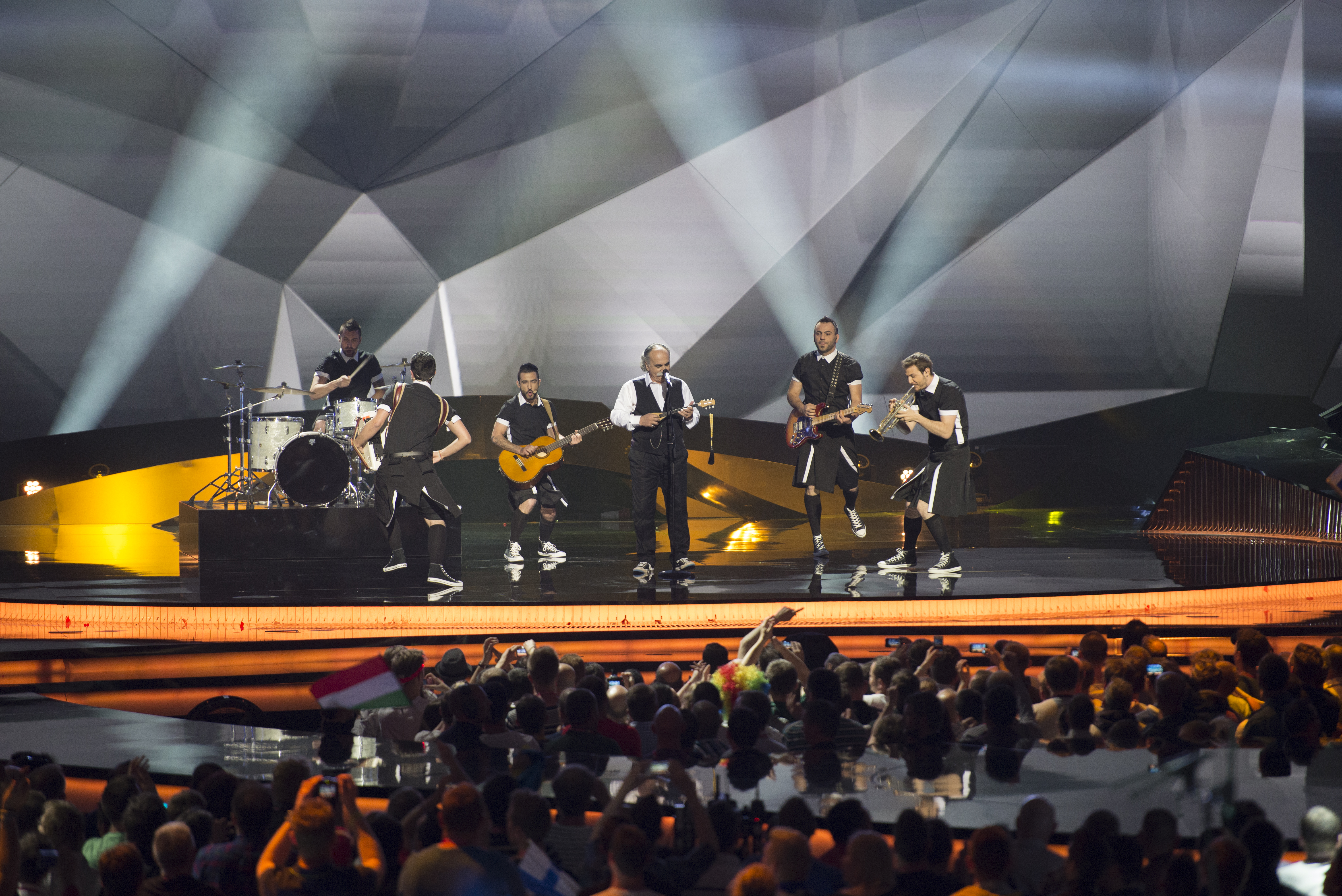 Koza Mostra feat. Agathon Iakovidis representing Greece with the song "Alcohol Is Free" during the second dress rehearsal of the second semi final of the Eurovision Song Contest 2013 in Malmö. (Help translate this text)